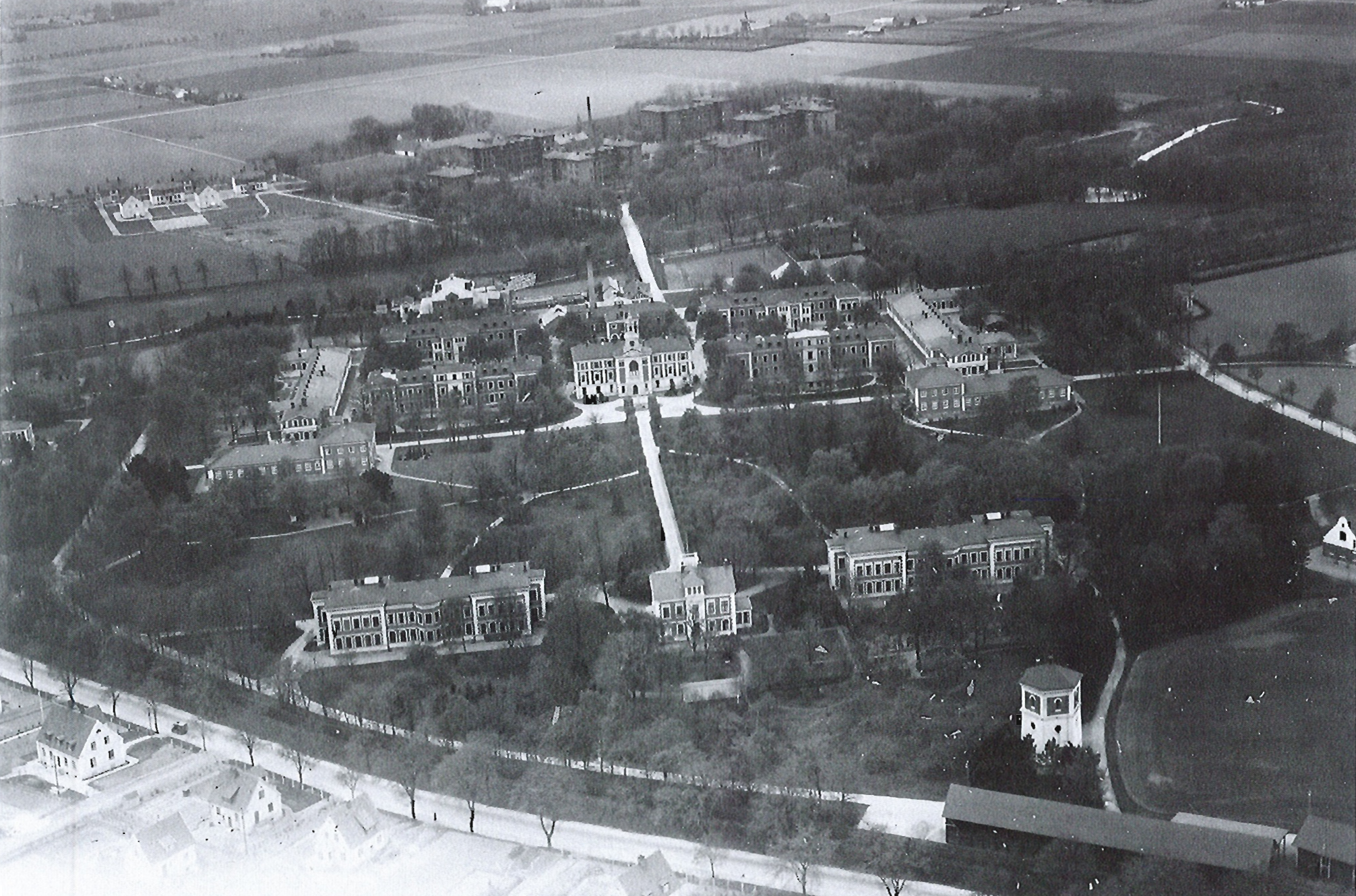 An aerial of Lunds Hospital (later called Sankt Lars sjukhus) from the year 1928